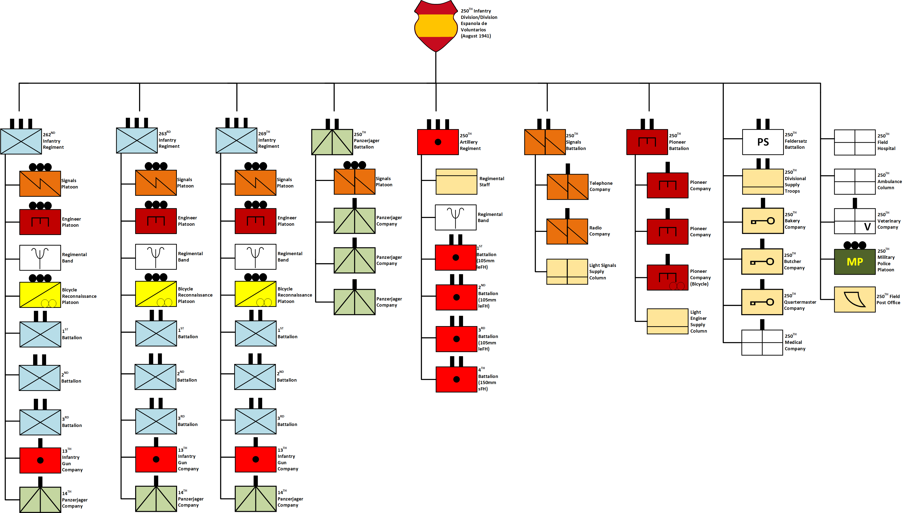 Organization of the Wehrmacht's 250th Infantry Division made of Spanish volunteers as of August 1941